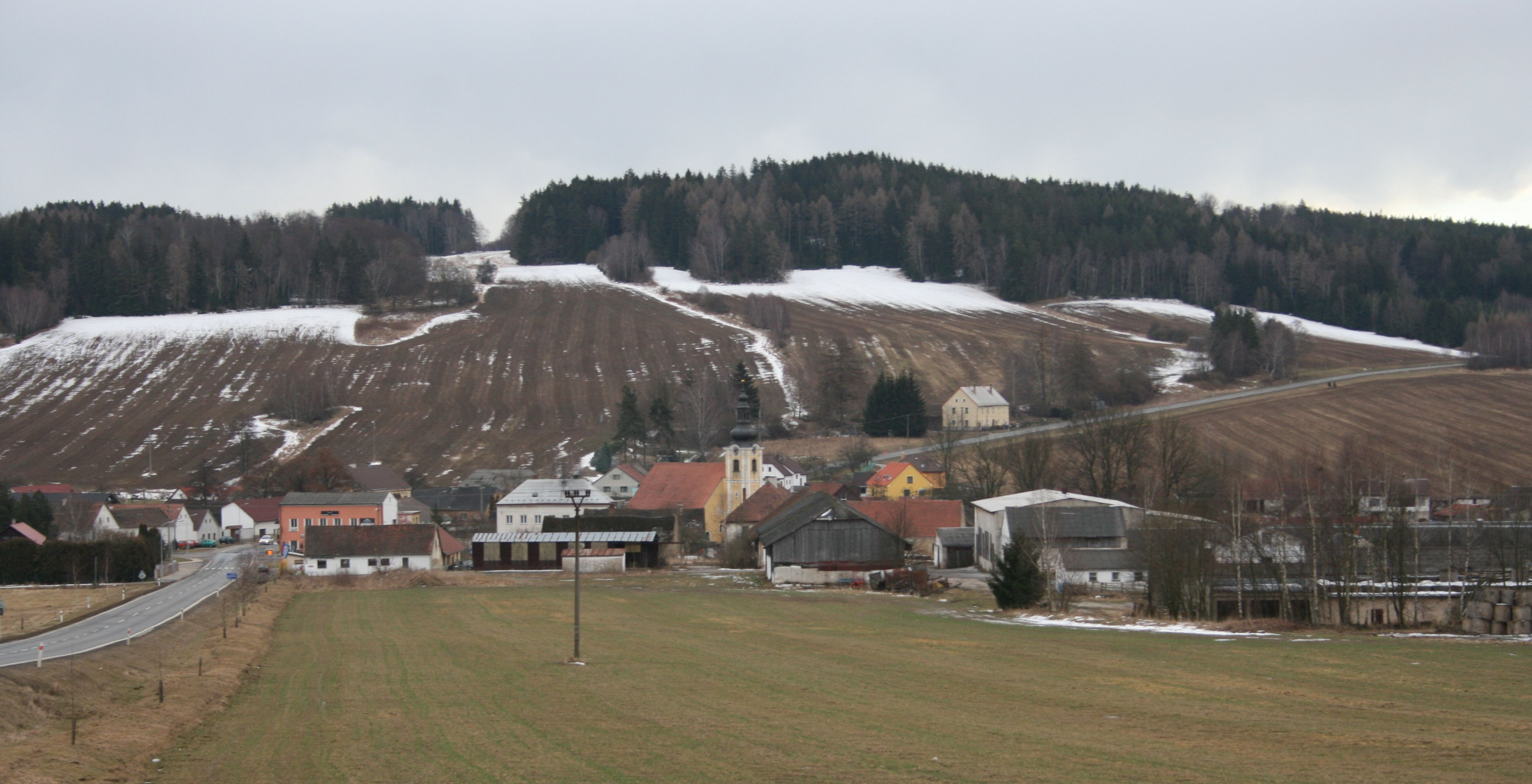 Village Číměř, Jinřichův Hradec District, Czech Republic.